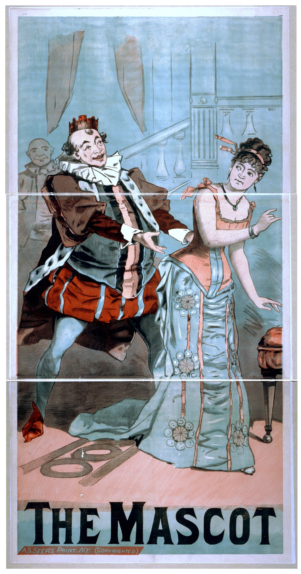 Title: The mascot Abstract/medium: 1 print : color woodcut ; sheet 212 x 106 cm. (poster format)